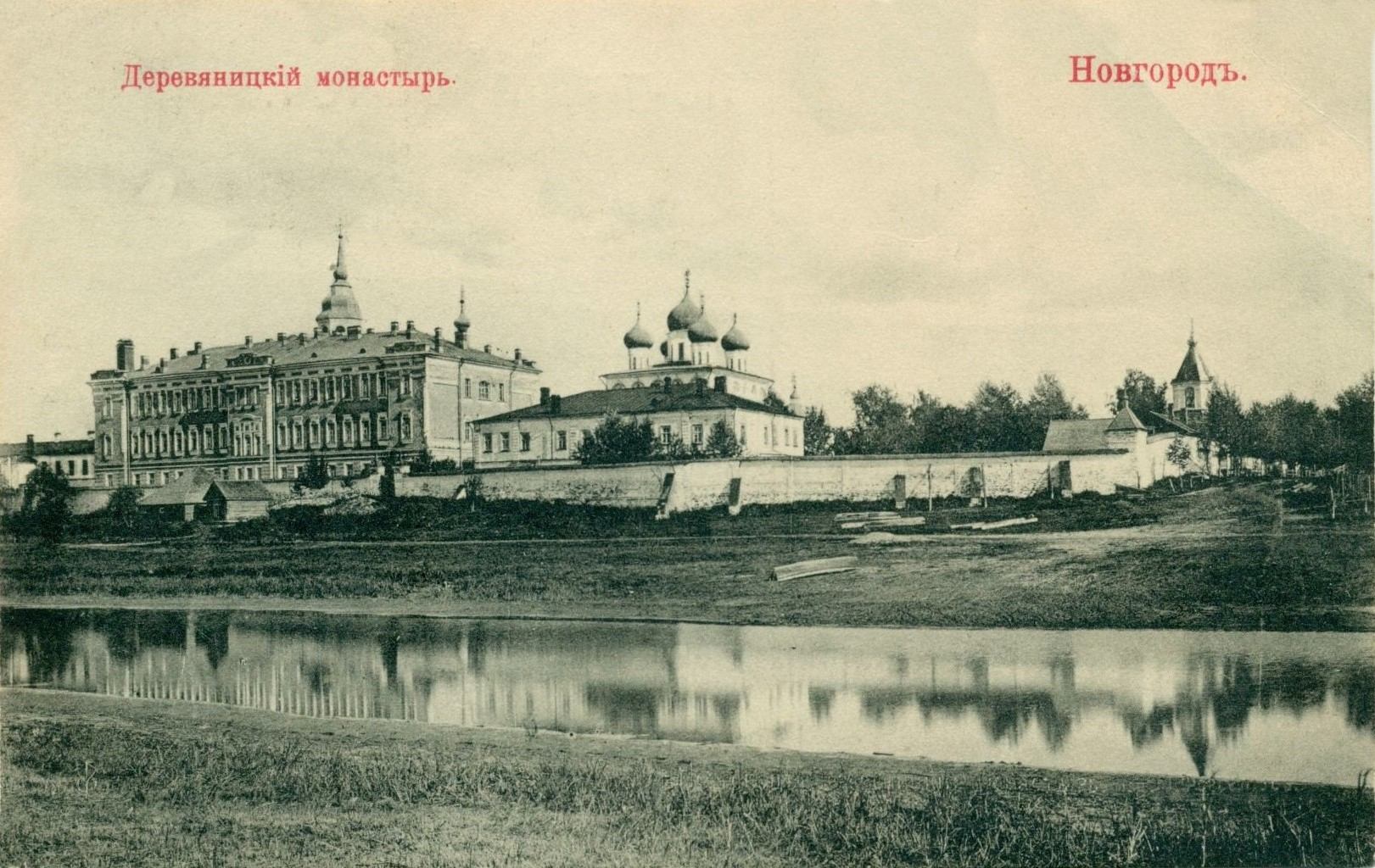 Derevianka river and Derevianitsky monastery in Veliky Novgorod, Russia